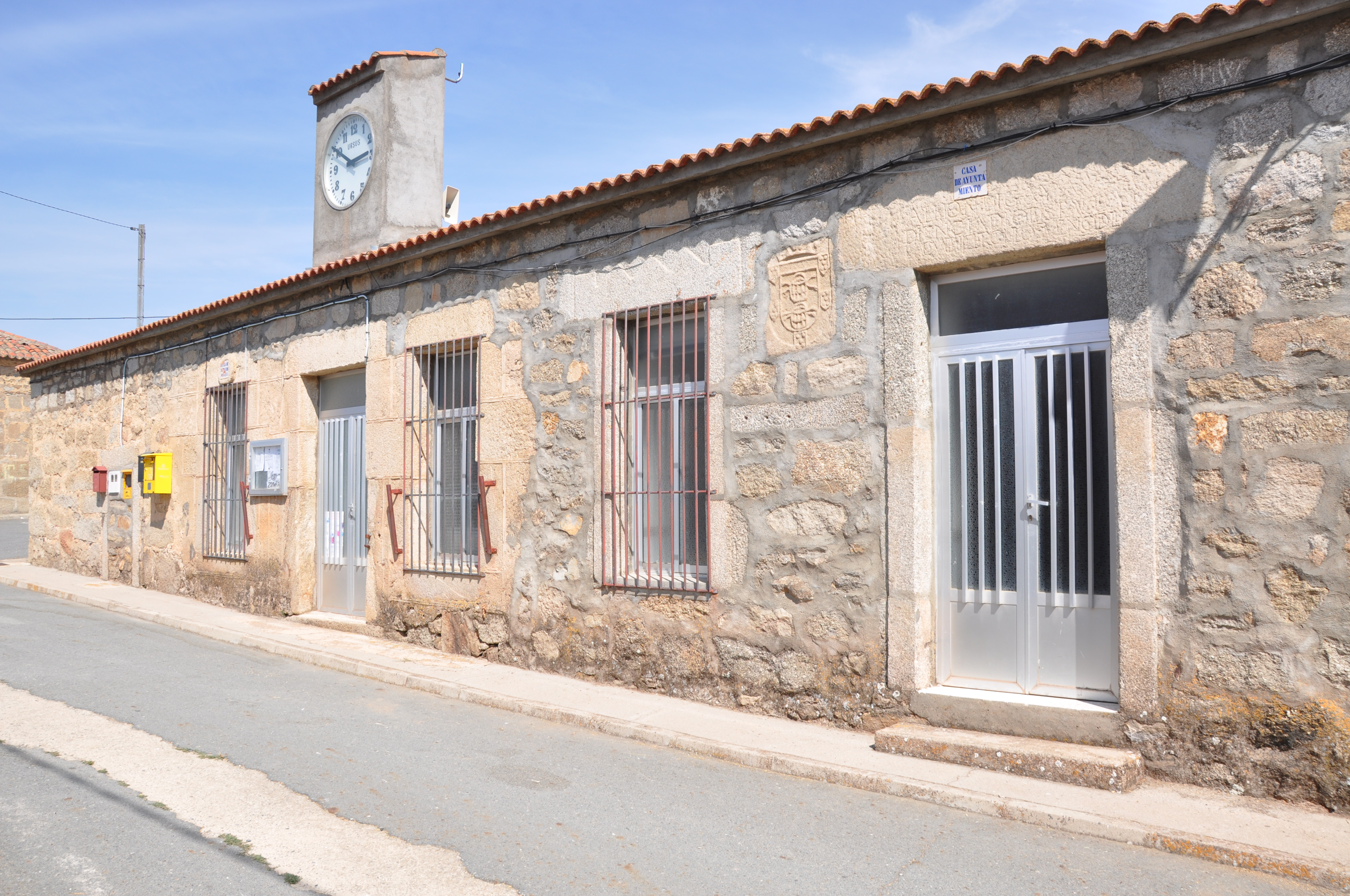 Town hall building in San Bartolomé de Corneja, Ávila, Spain